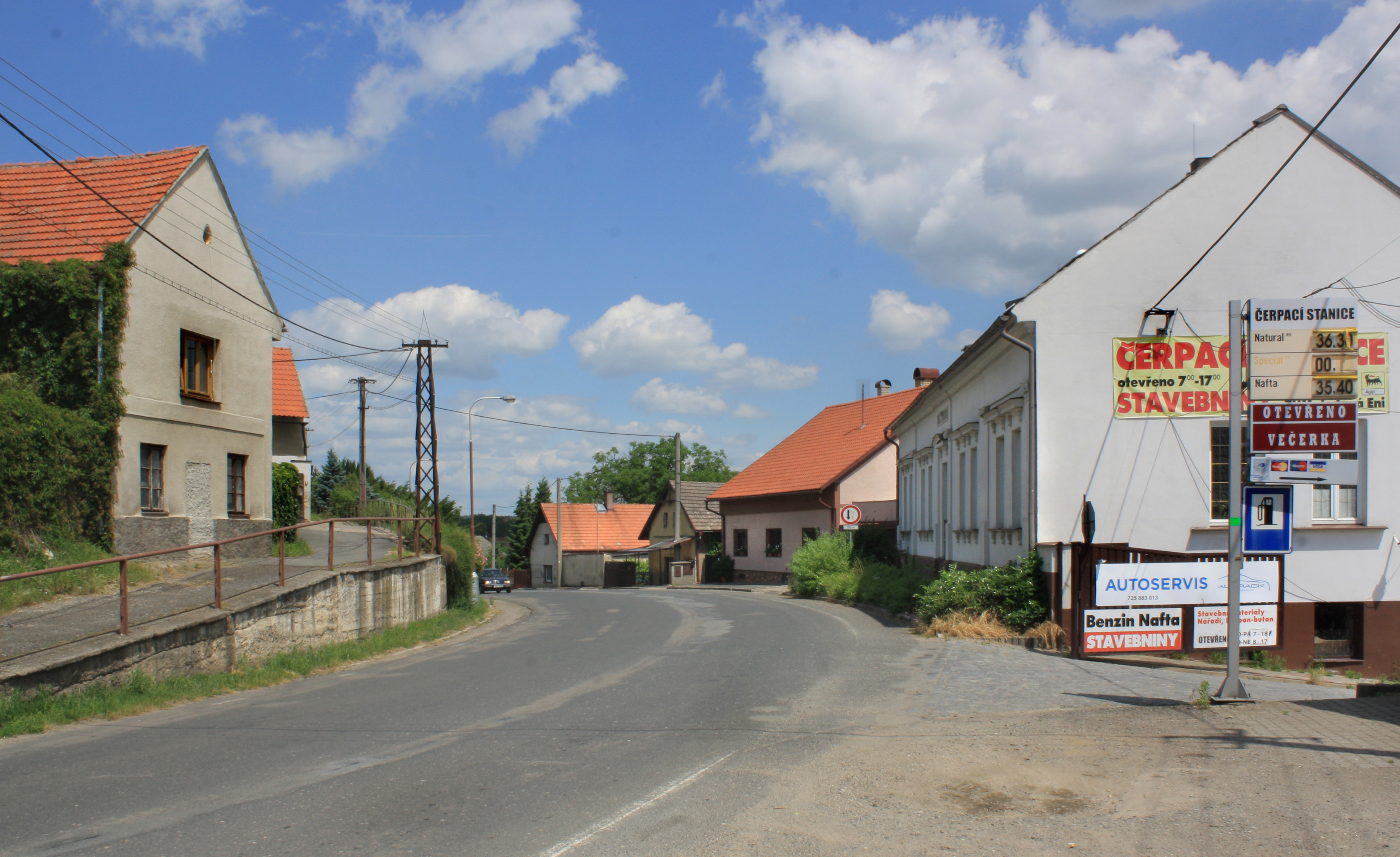 Road No. 610 in Tuřice, Czech Republic